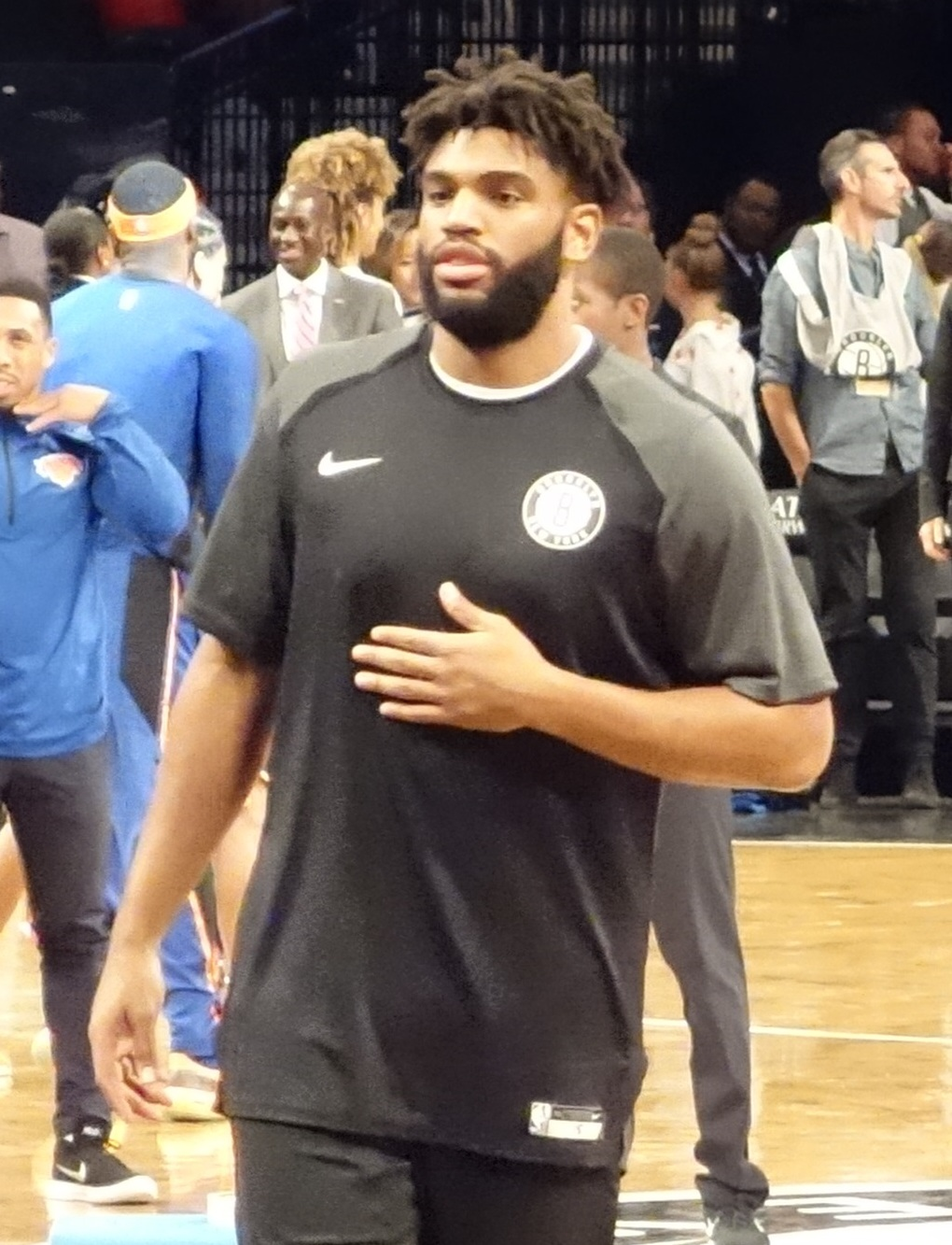 Brooklyn Nets forward/center Alan Williams warming up prior to the NBA Preseason game between the Brooklyn Nets and the New York Knicks at the Barclays Center on October 3, 2018.